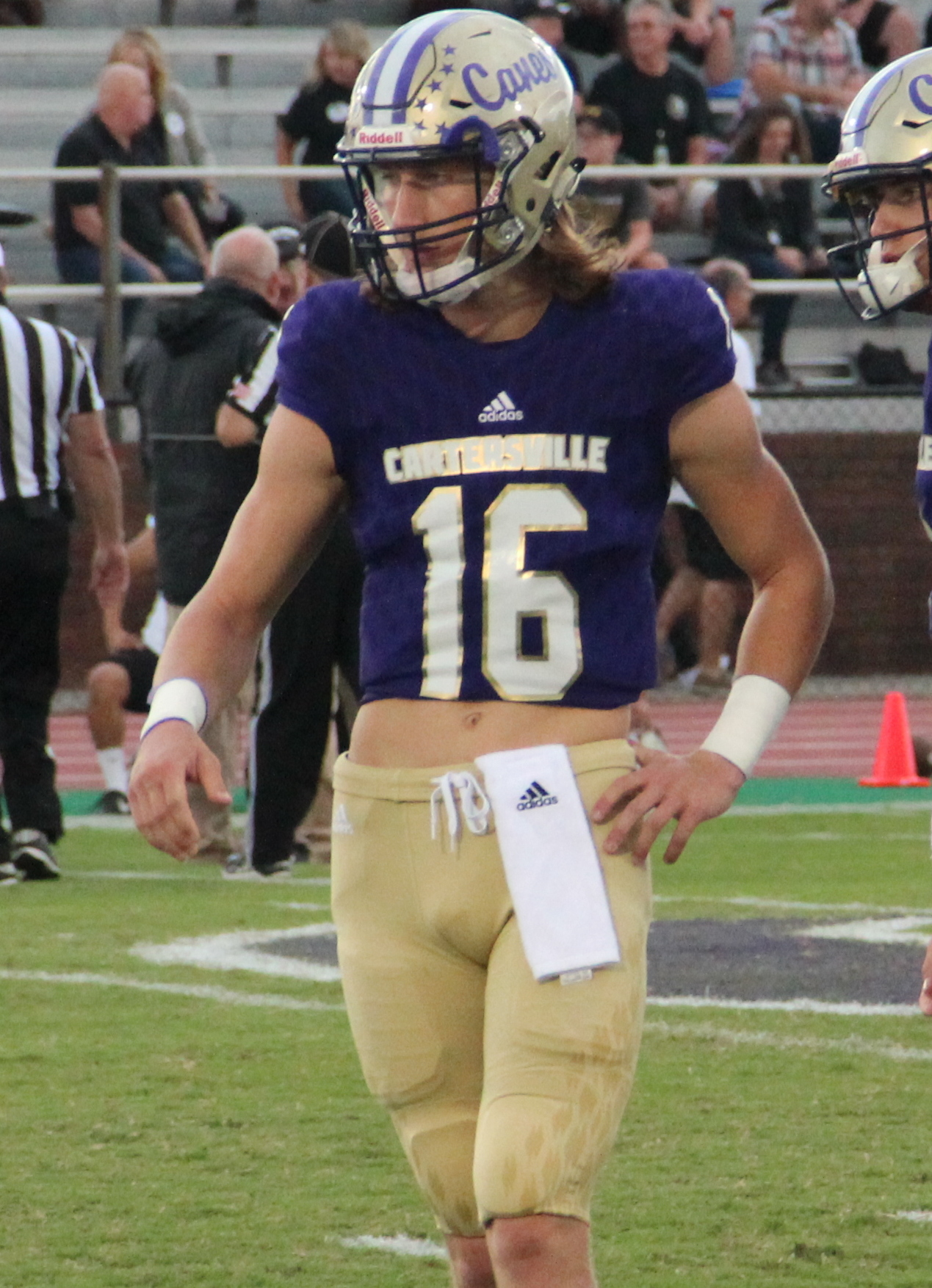 Cartersville Hurricanes vs. Calhoun Yellowjackets, September 1, 2017